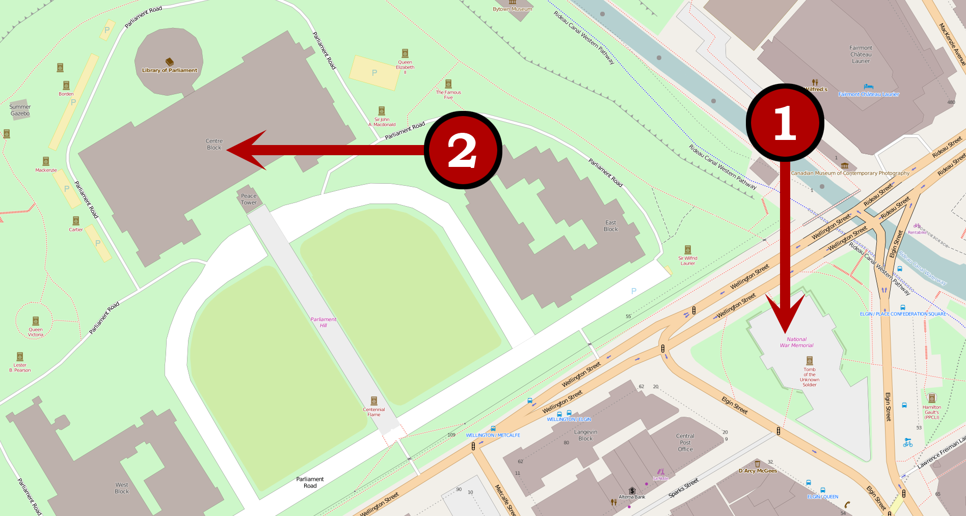 A map of the locations of the 2014 shootings at Parliament Hill, Ottawa.